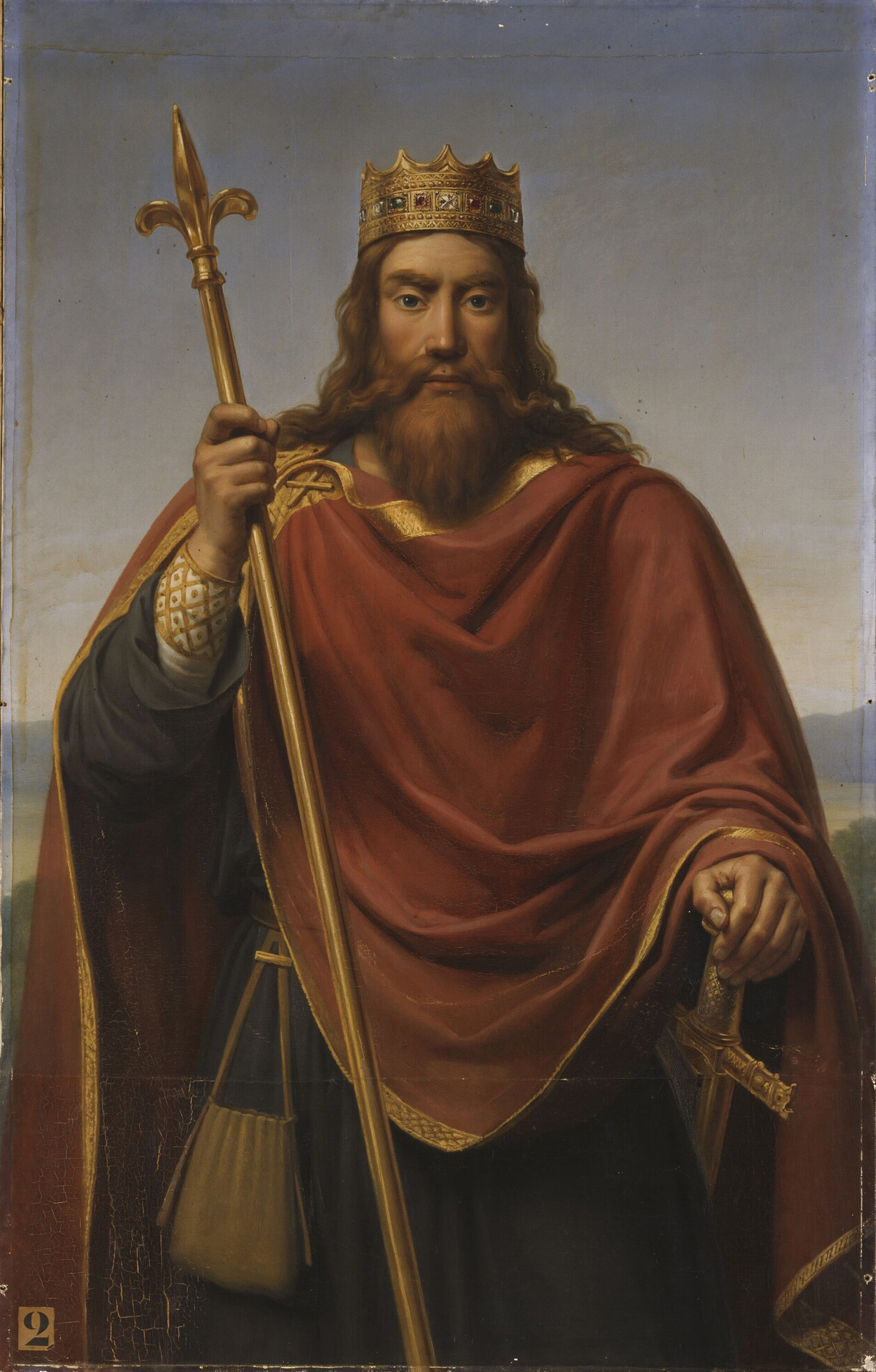 This painting belongs to the Portraits of Kings of France, a series of portraits commissioned between 1837 and 1838 by Louis Philippe I and painted by various artists for the Musée historique de Versailles.